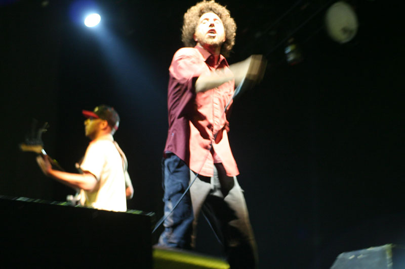 Zack de la Rocha and Tom Morello of Rage Against The Machine at Coachella 2007